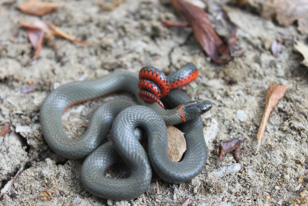 An adult San Bernardino Ringneck Snake displaying its defensive coloration.